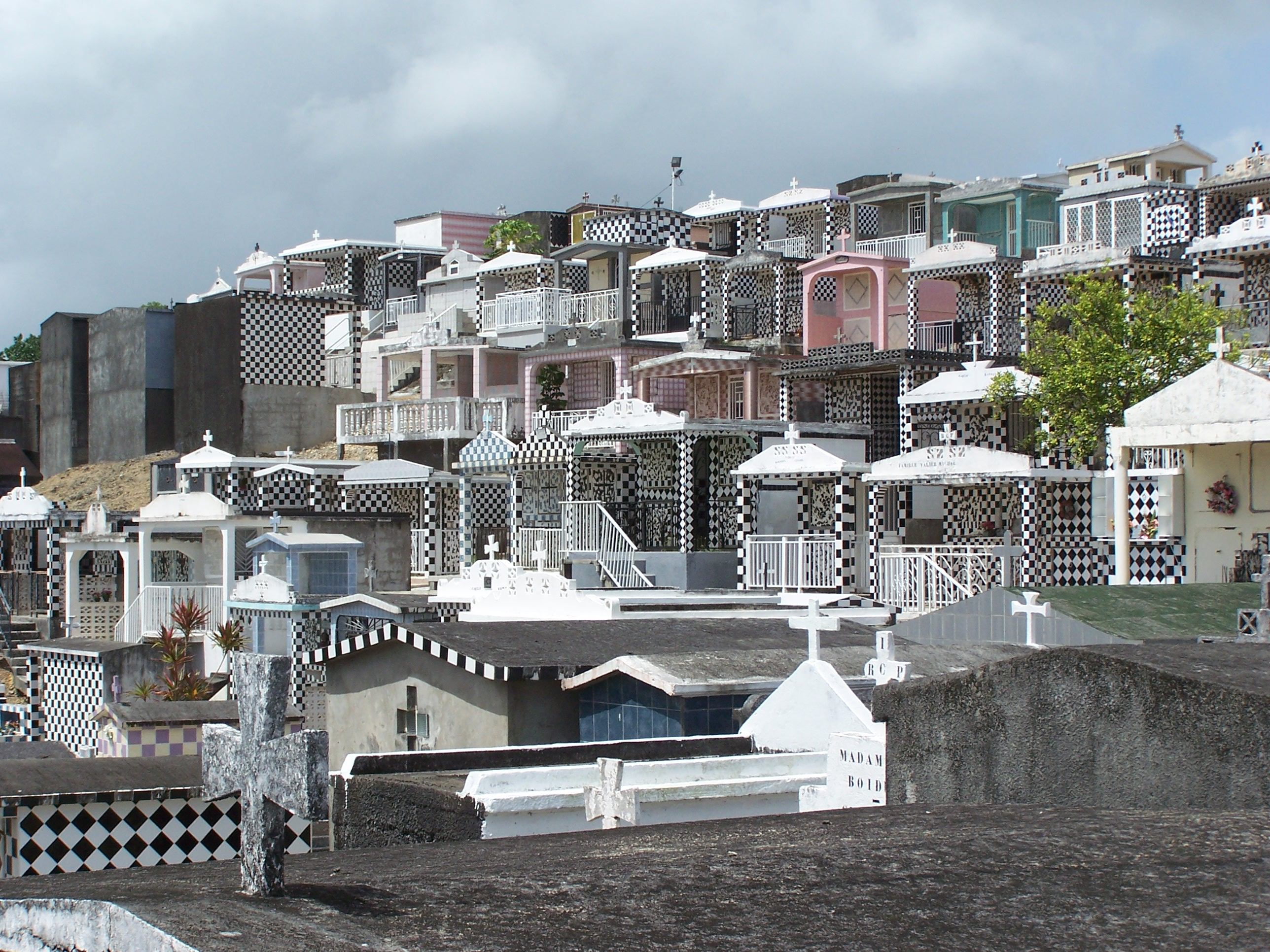 Cemetery of Morne-à-l'Eau in Guadeloupe